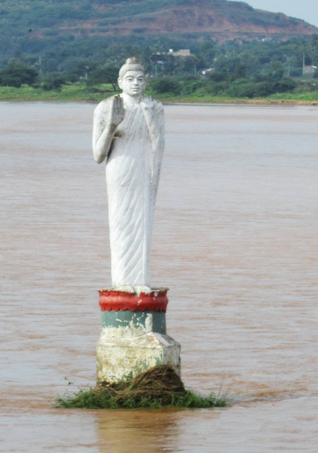 bhudda statue in rever Nagavali,near rever view park